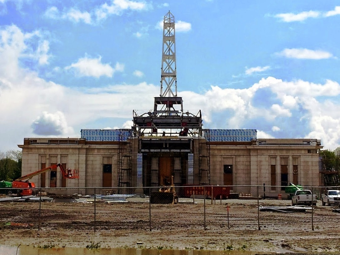 The Indianapolis Indiana Temple of The Church of Jesus Christ of Latter-day Saints while under construction.